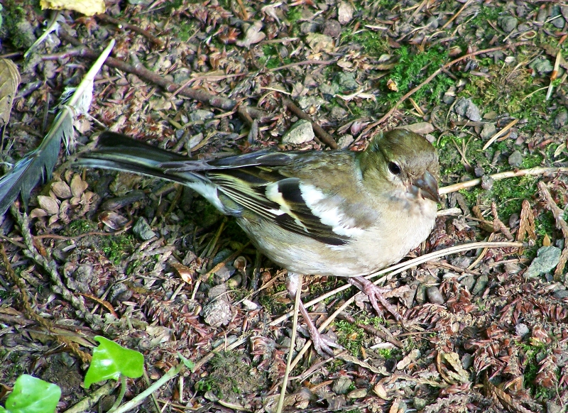 Immature plumage of common chaffinch.